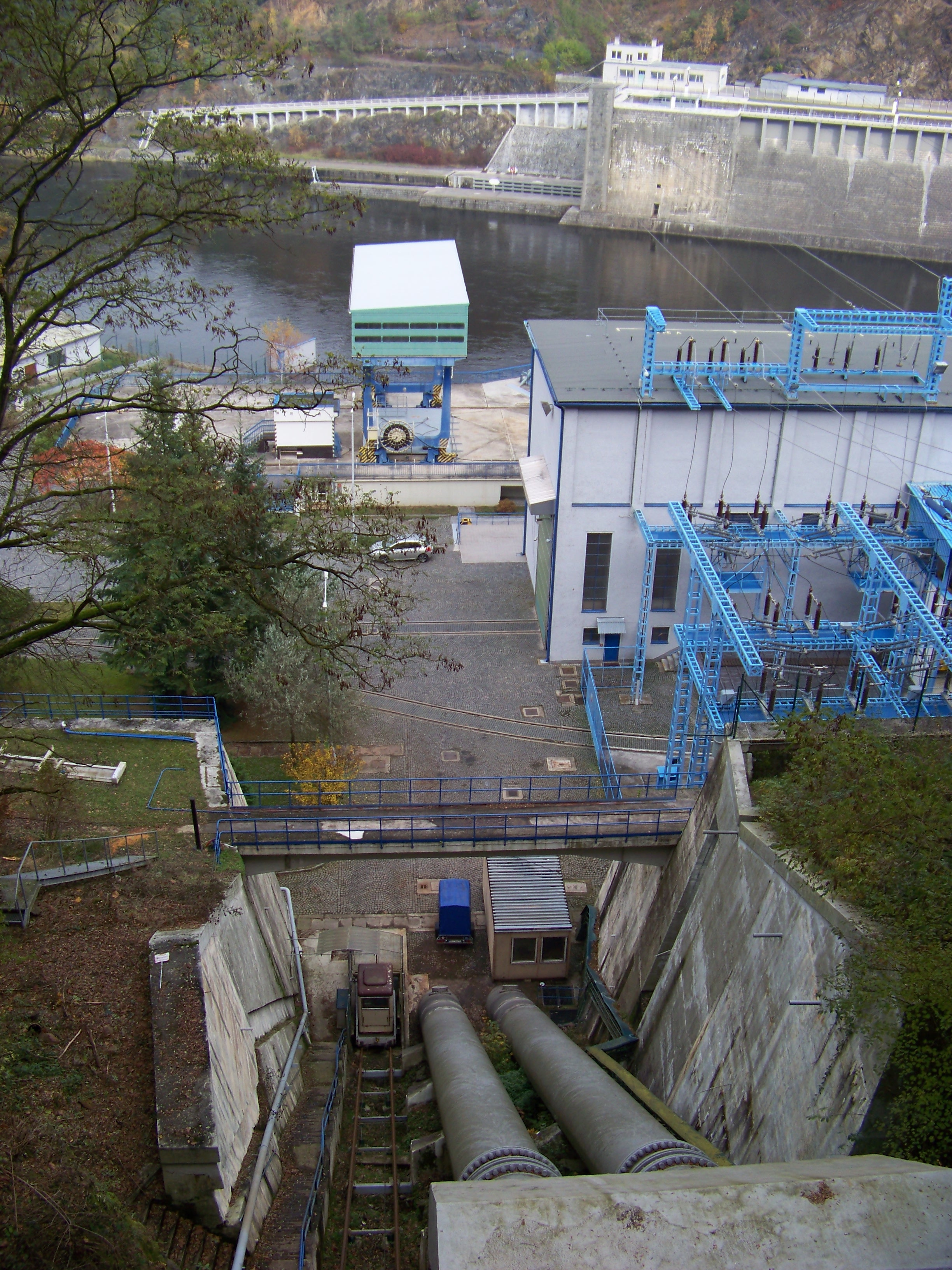 Štěchovice, Prague-West District, Central Bohemian Region, the Czech Republic. Štěchovice Dam. - OpenStreetMap(Info)